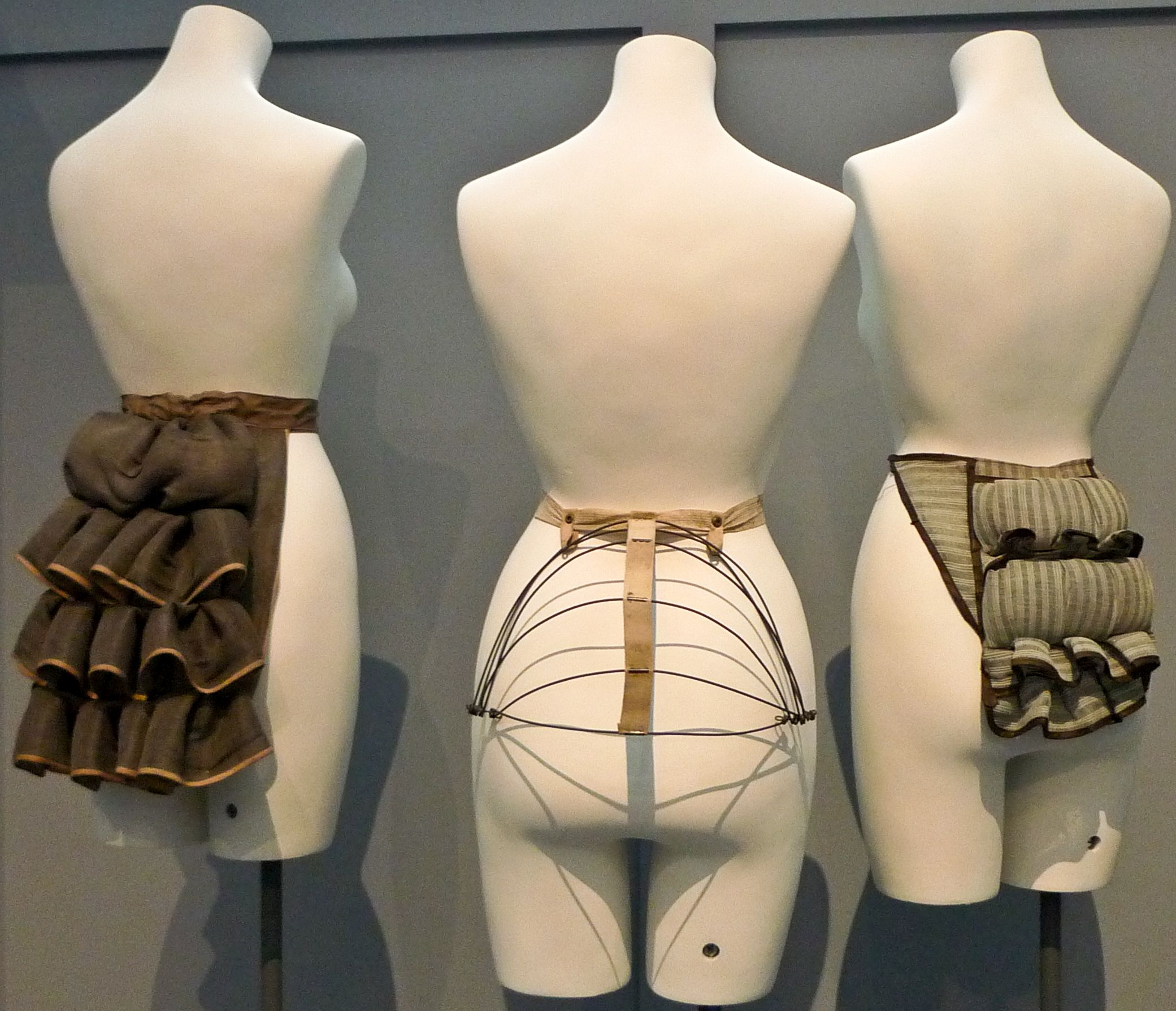 English Bustles, 1875-1885 - Fashioning Fashion - LACMA From the exhibition "Fashioning Fashion: European Dress in Detail, 1700-1915" at the Los Angeles County Museum of Art. On view from October 2, 2010 - March 6, 2011.